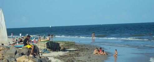 Pitimbue Beach